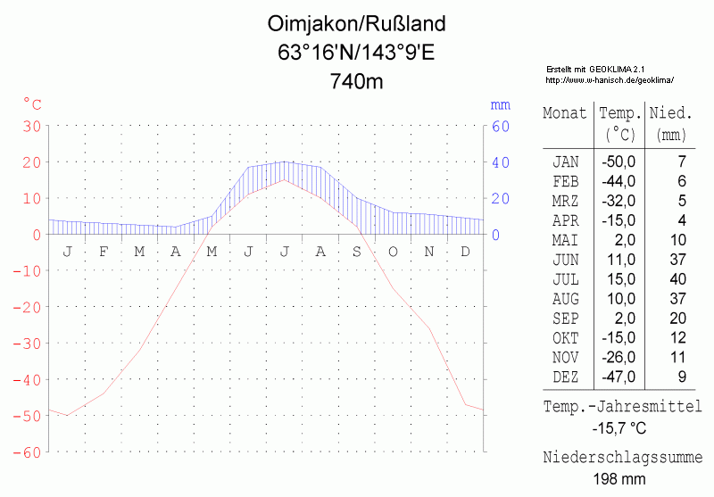 climate chart in the format by Walther and Lieth, metric, °Celsisus and millimeters, made with Geoklima 2.1